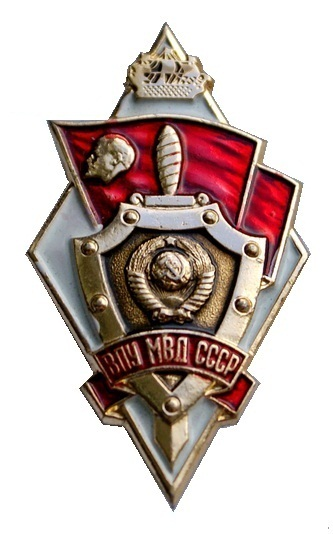 Badge Higher political School of MVD USSR ( 60 years Komsomol) 1978 .